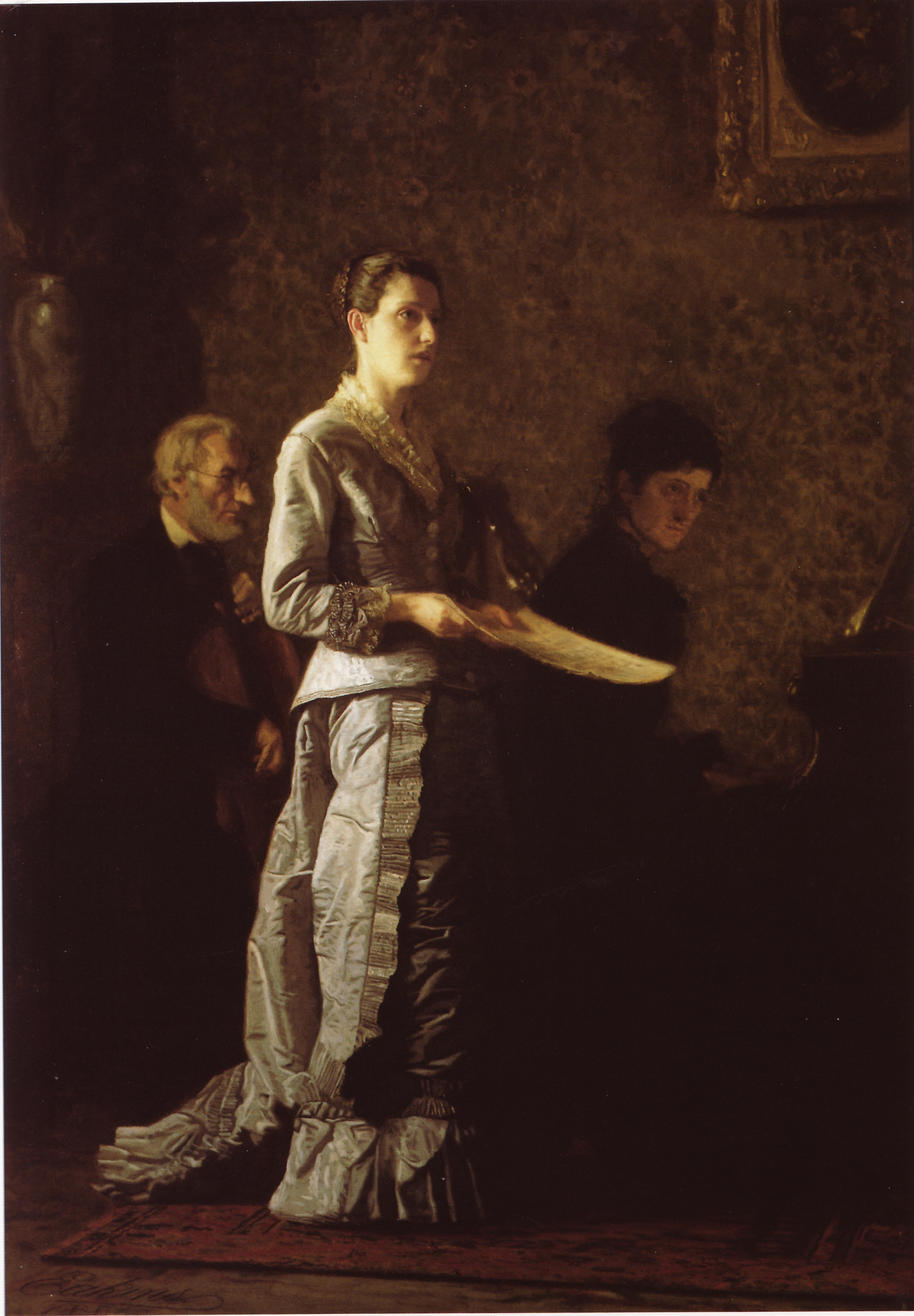 Painting The Pathetic Song by Thomas Eakins